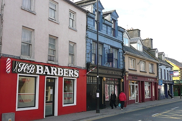 Main Street, Loughrea Some of the premises on the south side of the street. The red walls are to hide the blood.